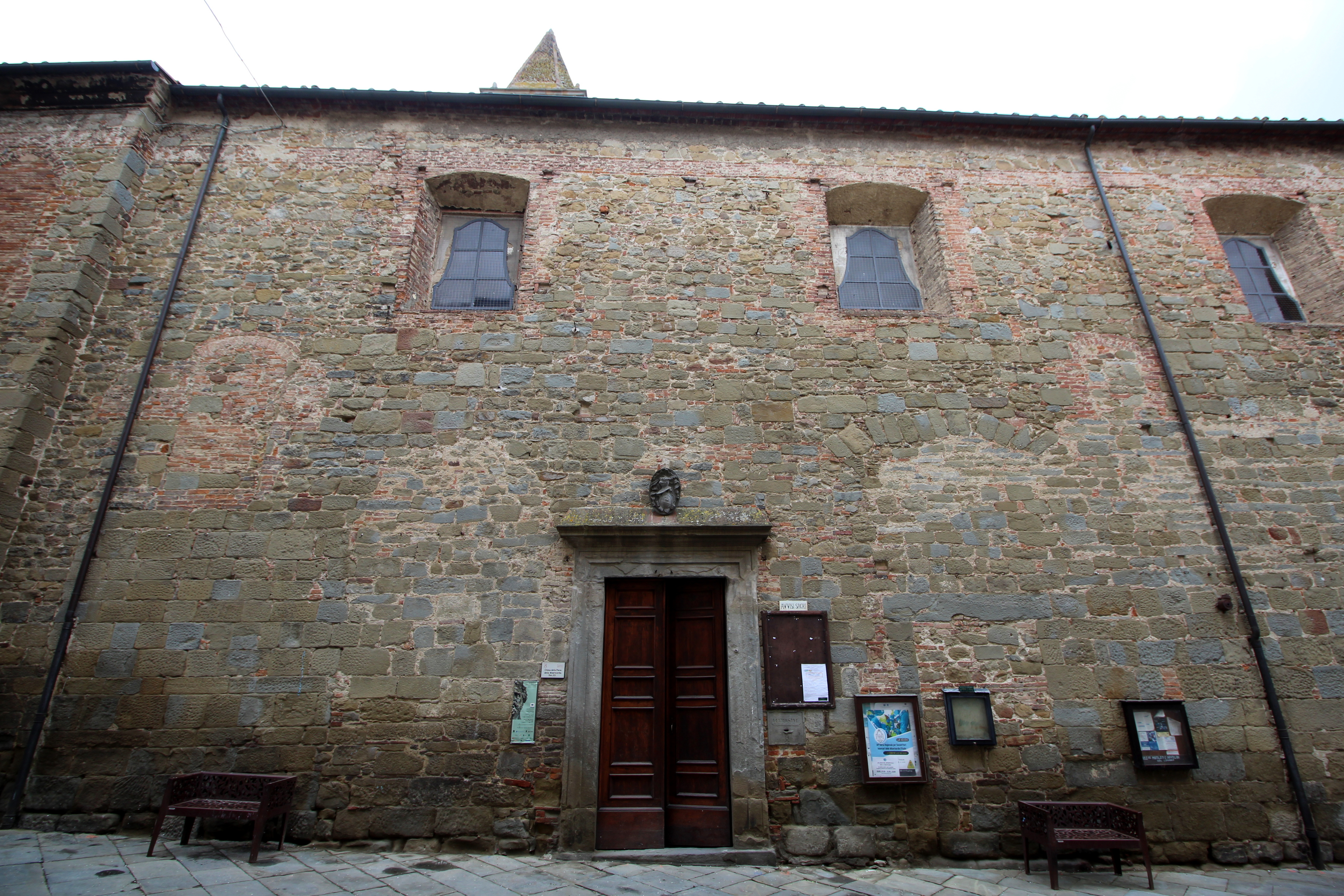 Church Chiesa della Misericordia (also called: Pieve dei Santi Egidio e Savino or Pieve Vecchia), city center of Monte San Savino, Province of Arezzo, Tuscany, Italy